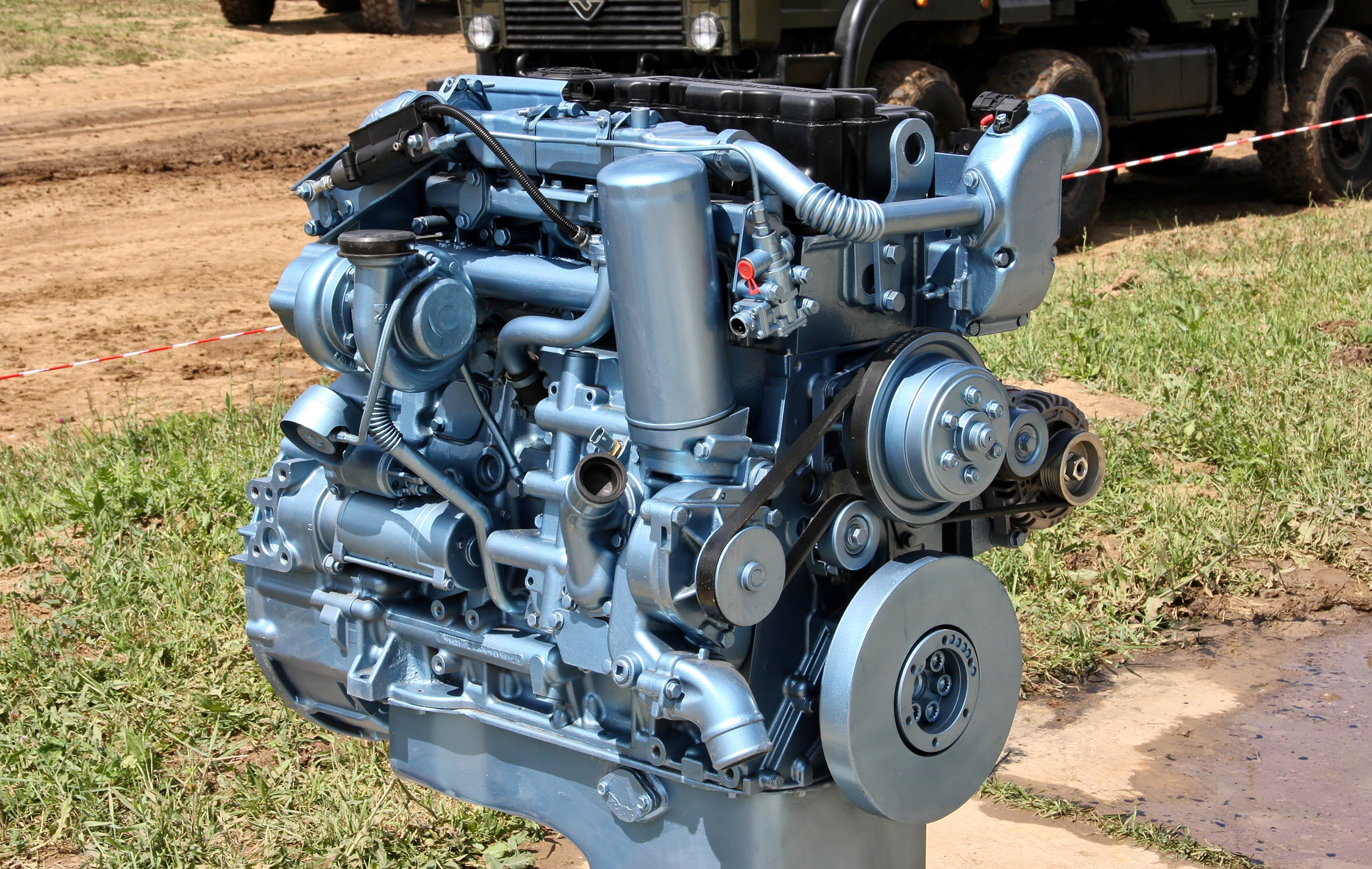 YaMZ-534 diesel engine for Tigr and Volk vehicles.